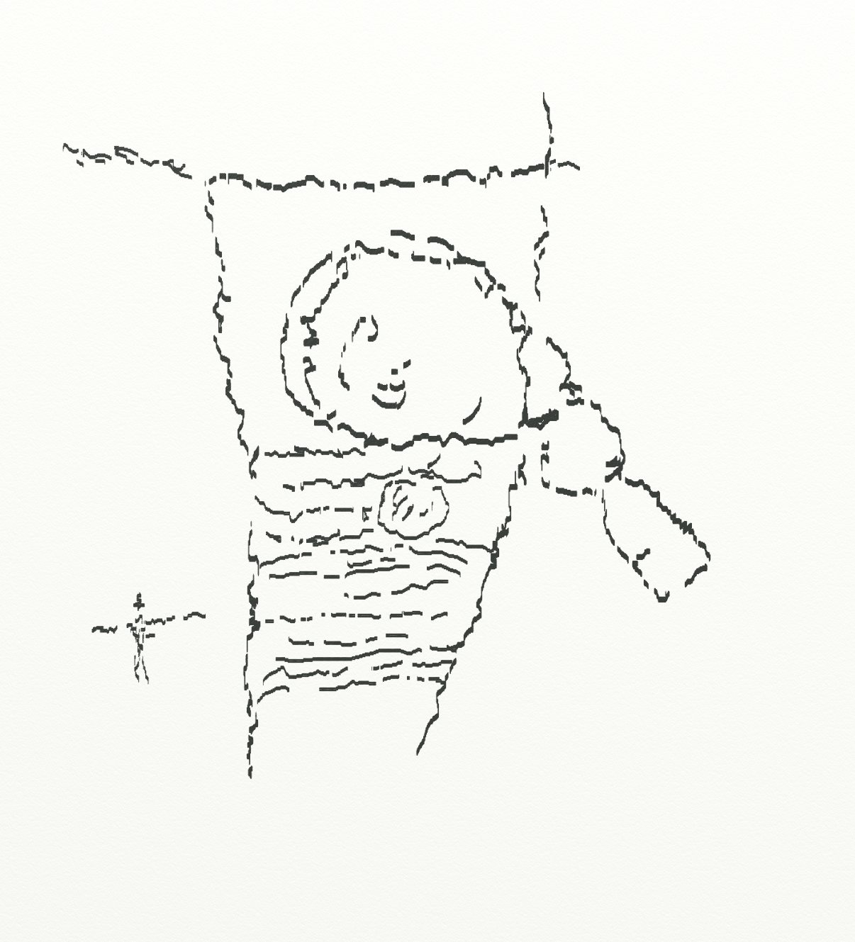 Tracing of prehistoric pictograph from Tainter Cave in southwest Wisconsin - possibly an image of a baby on a cradle-board.